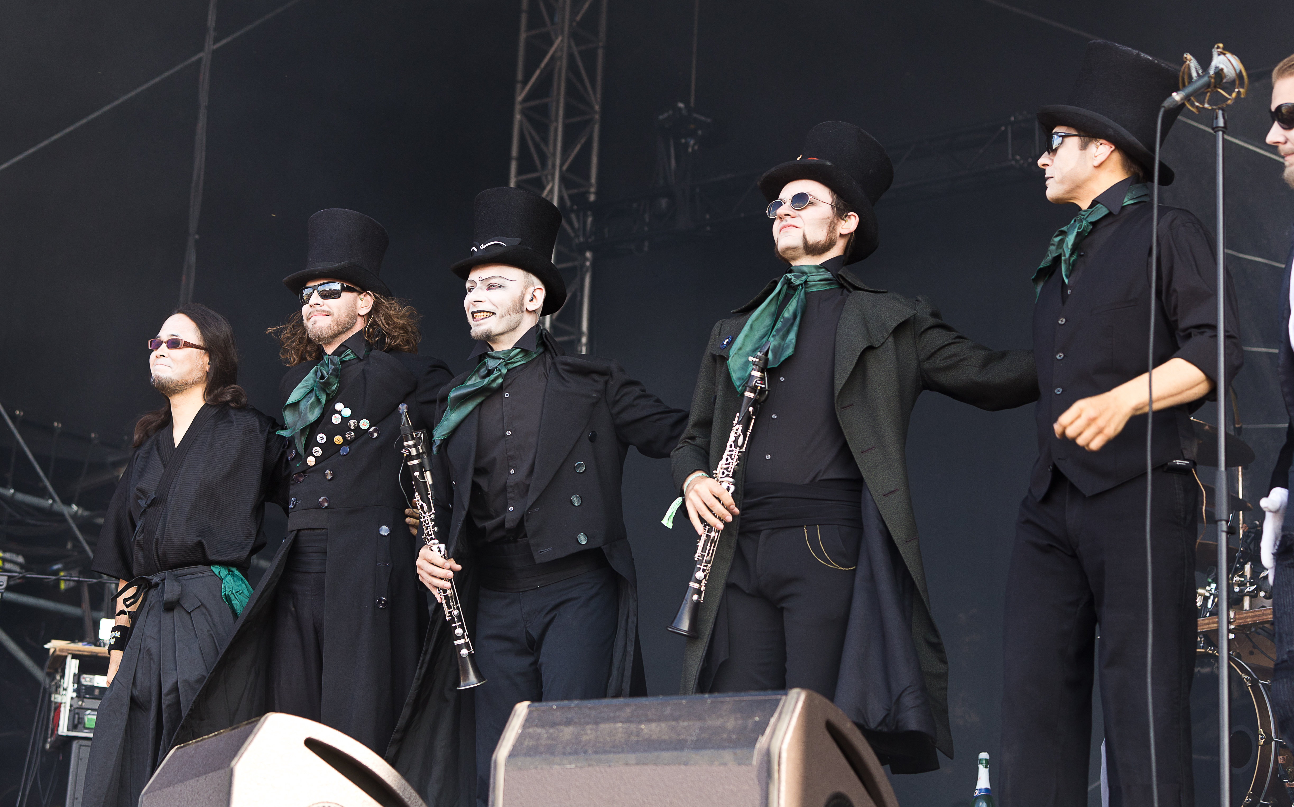 The German metal band Coppelius at the Rockharz Open Air 2015 in Ballenstedt/Germany.